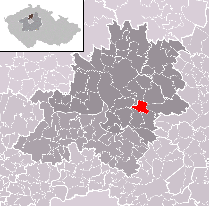 Location of Hostín municipality within Mělník District and administrative area of Mělník as a Municipality with Extended Competence.